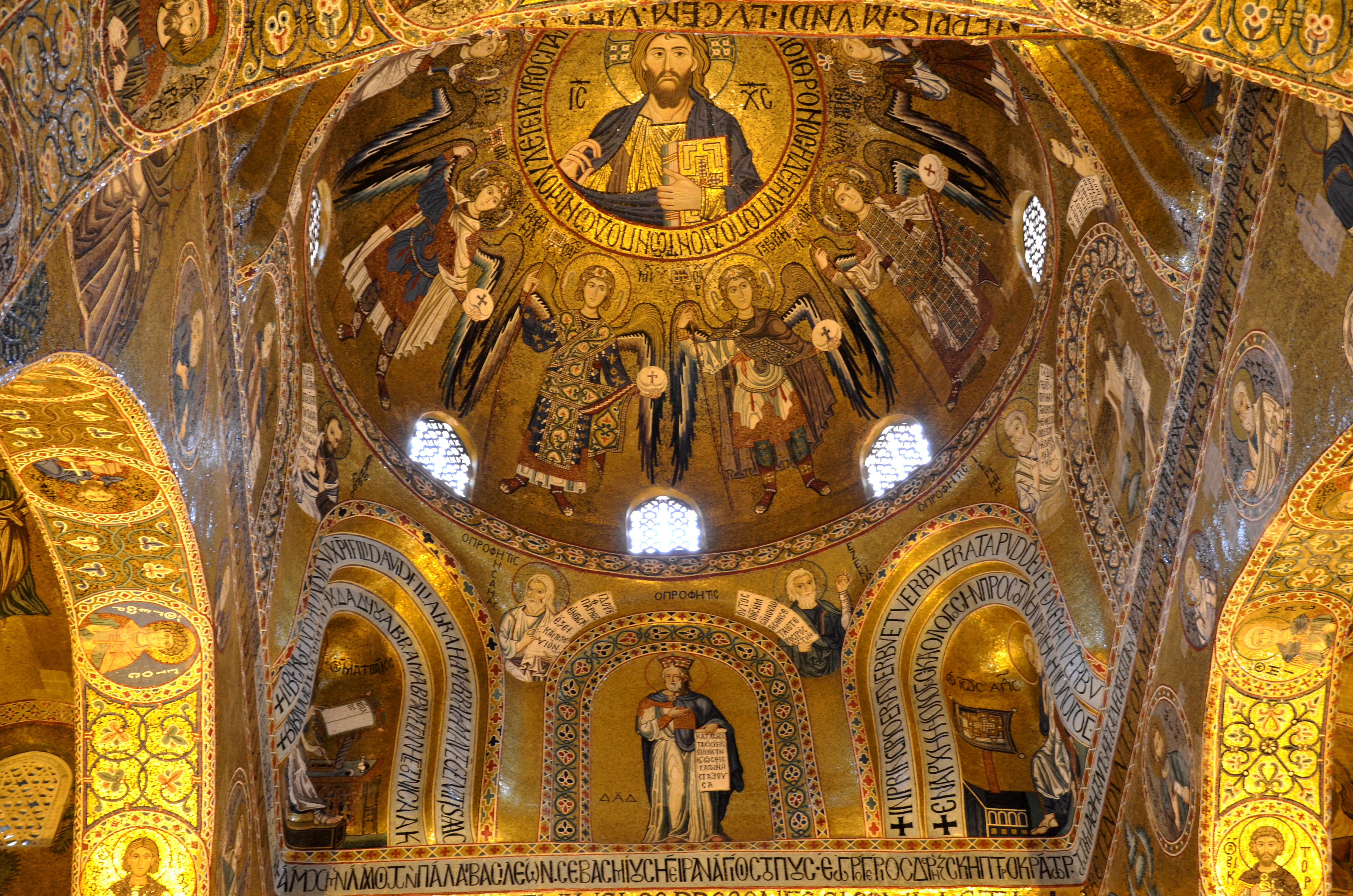 Interior of the Capella Palatina, Sicily